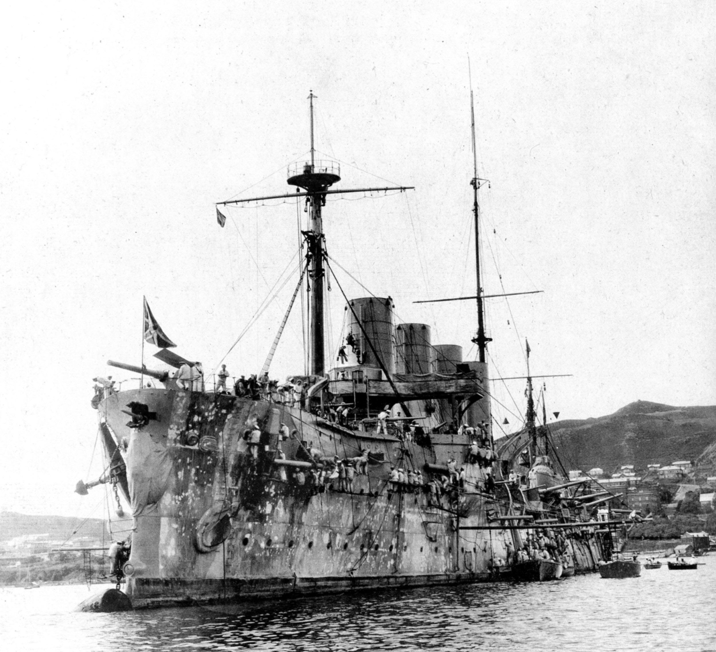 Imperial Russian cruiser Rossiya after a battle off Ulsan, August 1904.